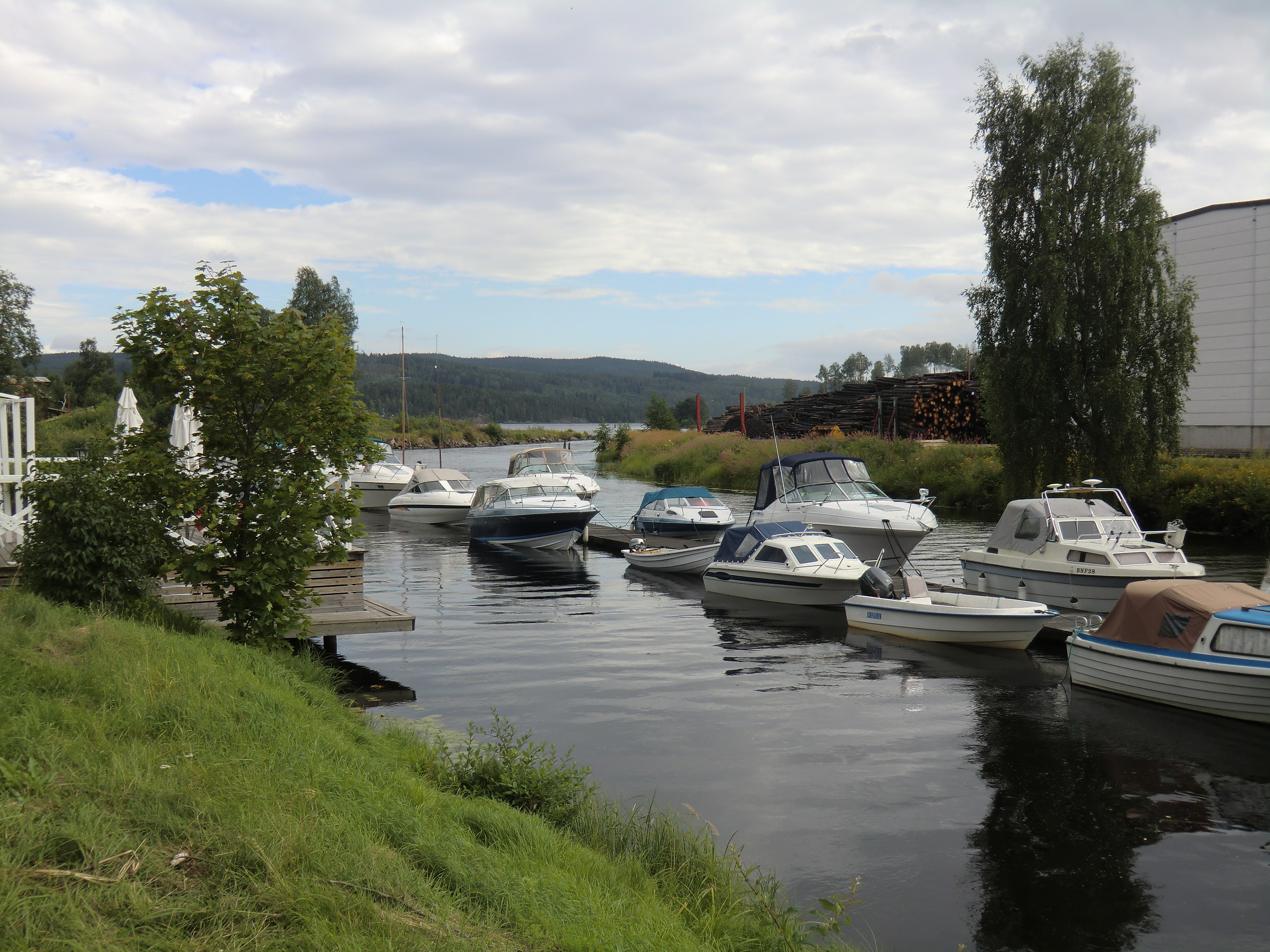 River Röjdan´s discharge into Fryken at Torsby, Värmland, Sweden.